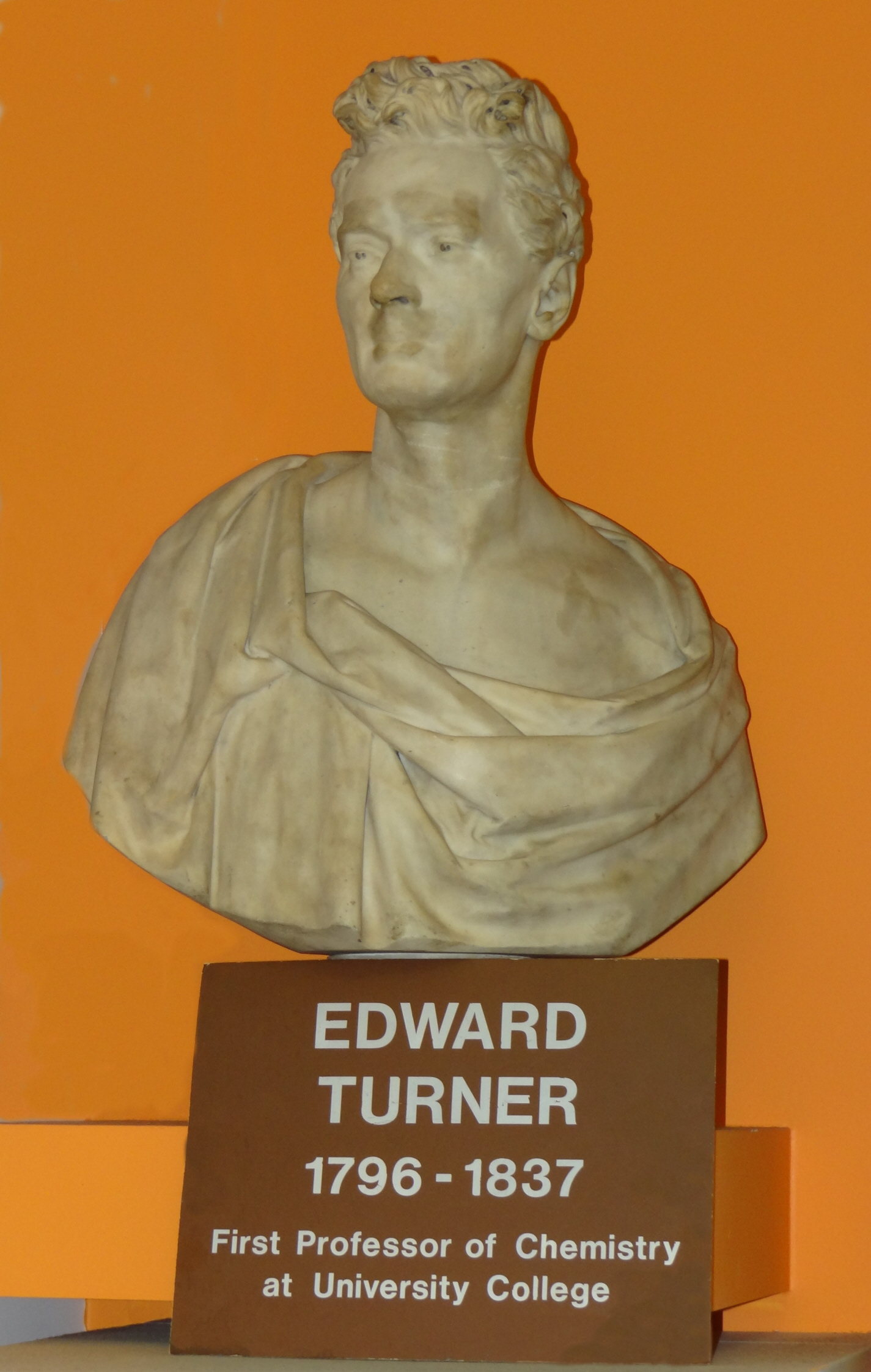 Bust of Edward Turner at Turner Laboratory, UCL Proceeds donated by his students, bust by Timothy Butler